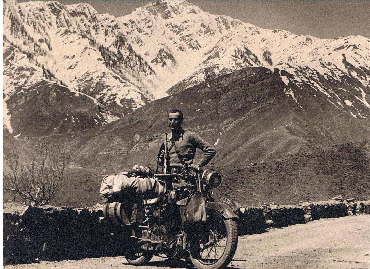 Jenka_Ratner_in_1932-1934_in_Kashmir_north_India